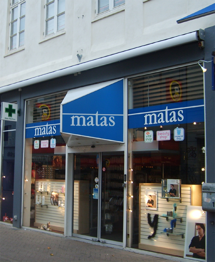 Matas shop in Odense, Denmark.